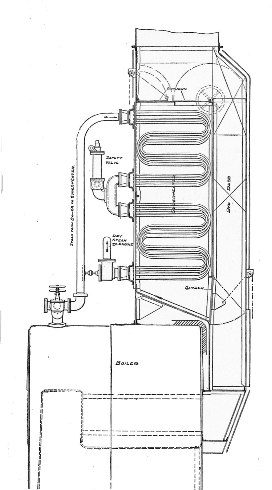 Scotch marine boiler, with superheater in uptake, side section (Rankin Kennedy, Modern Engines, Vol V).jpg